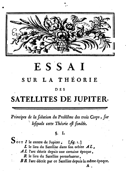 First page of the "Essai sur la théorie des satellites de Jupiter" written by Jean Sylvain Bailly.